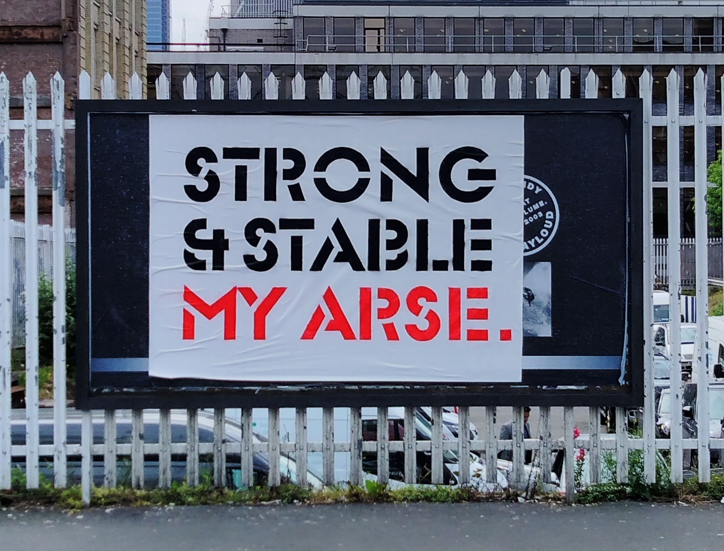 'Strong and Stable' sign in Shoreditch, London